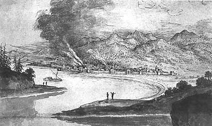 A Pieter Brueghel the Elder drawing, showing Reggio Calabria and Punta Calamizzi